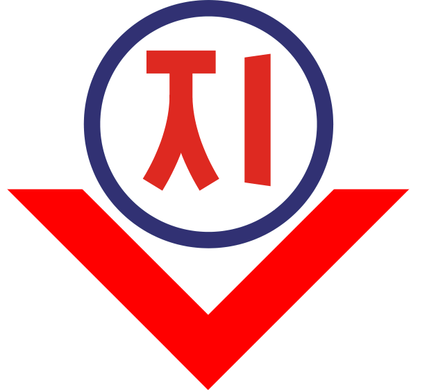 Logo of the Pyongyang metro.